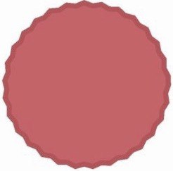 Image of maternal cells in the experimental mode browser game Agar.io.